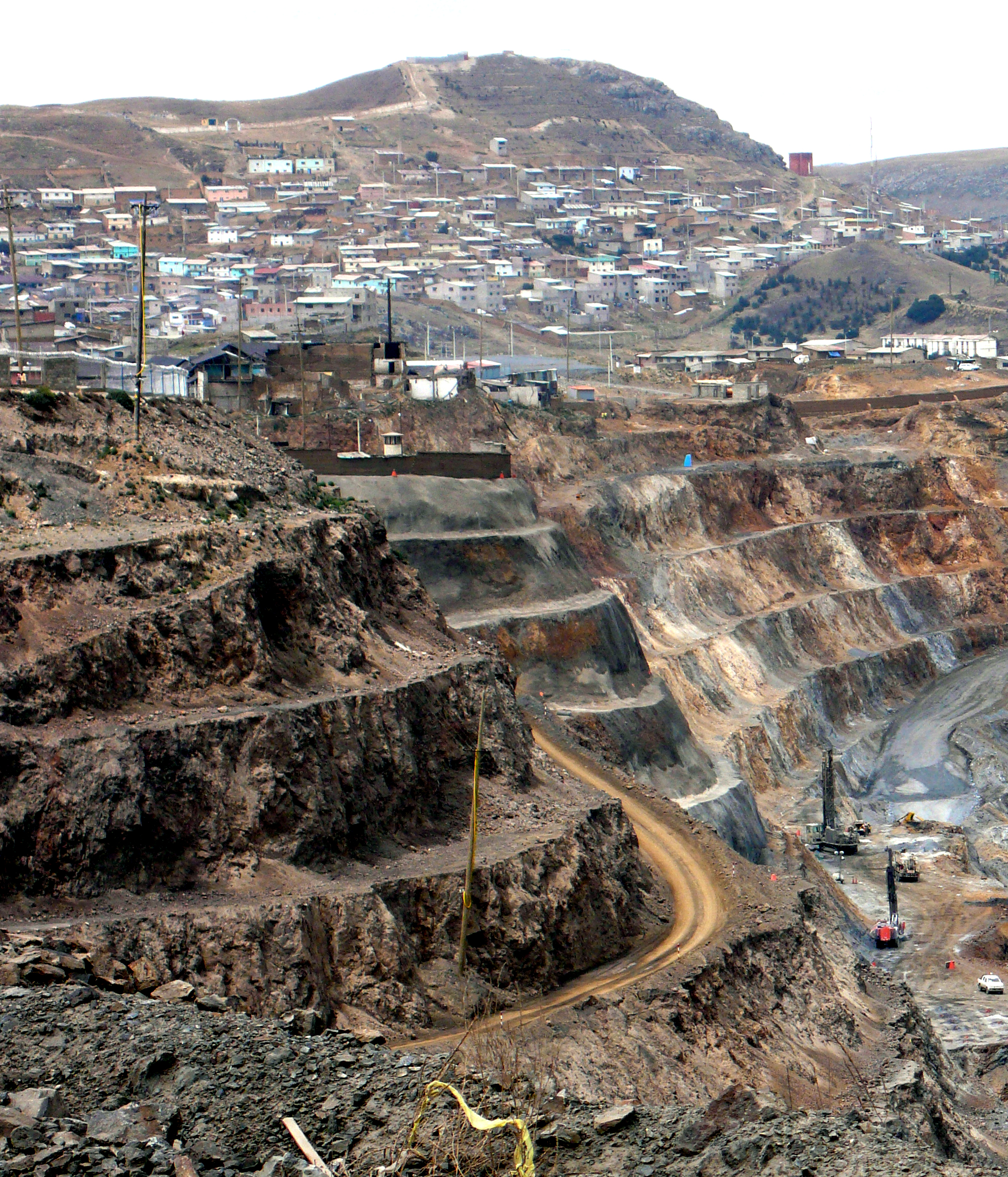 Mining influencing urban development of andean cities.